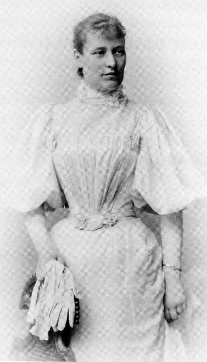 Swedish teacher and headmaster Anna Ahlström (1863-1943)